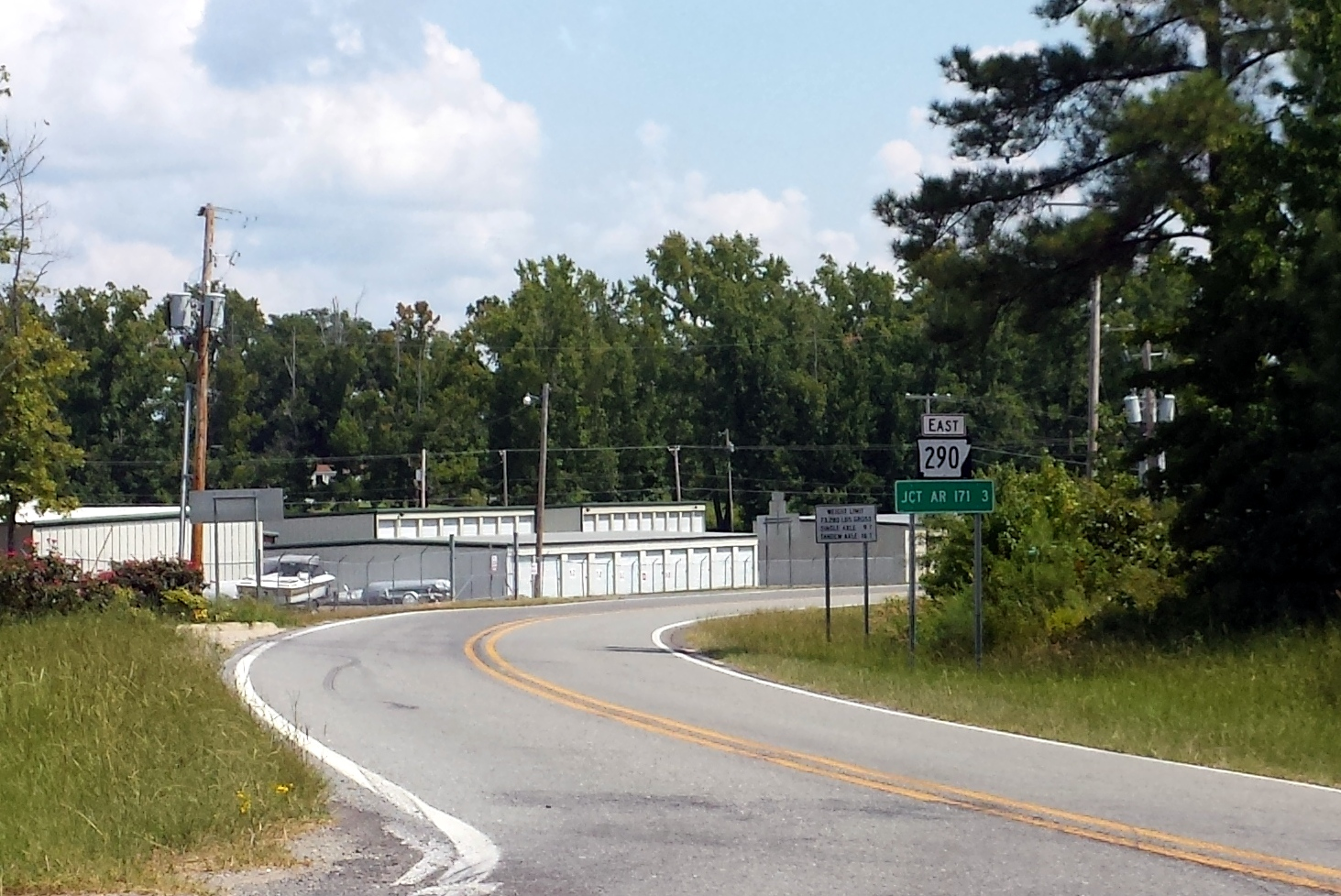 Highway 290 near Highway 128 south of Hot Springs, AR. Looking east